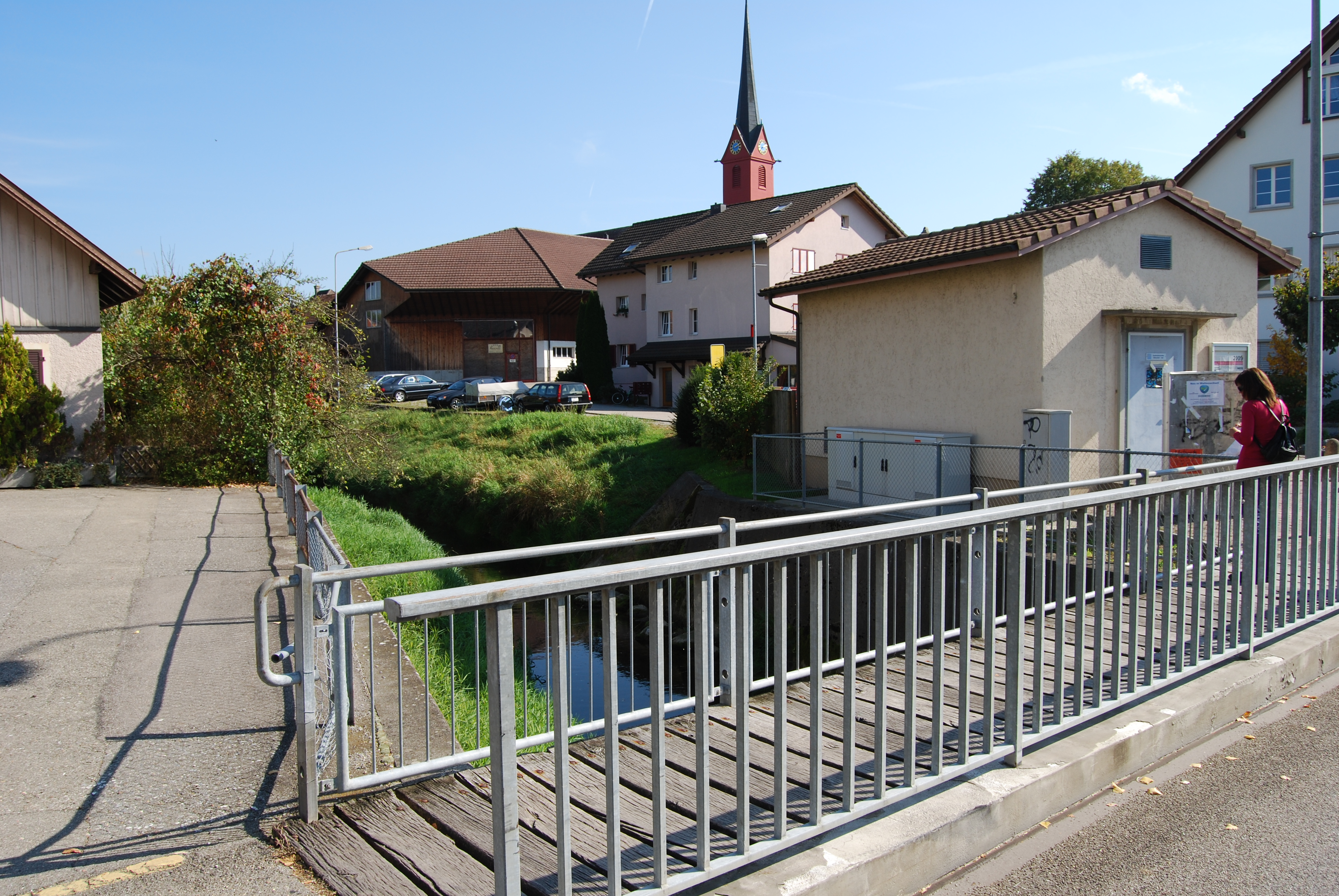 Bünz bridge and church of Waltenschwil, canton of Aargau, SwitzerlandEsperanto: Bünz-ponto kaj preĝejo de Waltenschwil, Kantono Argovio, Svislando